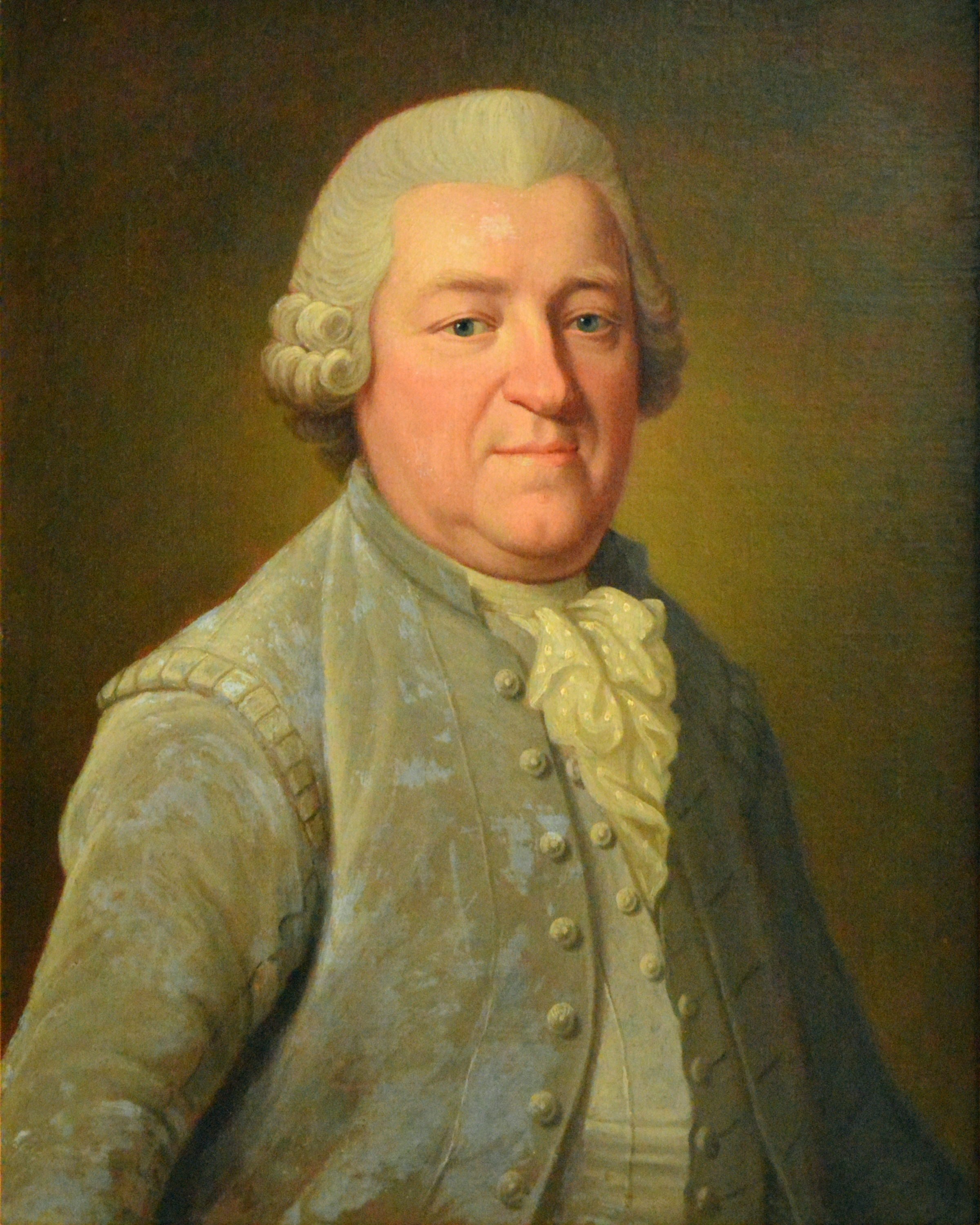 Portrait of Karl Fredrik Ljungman, Swedish